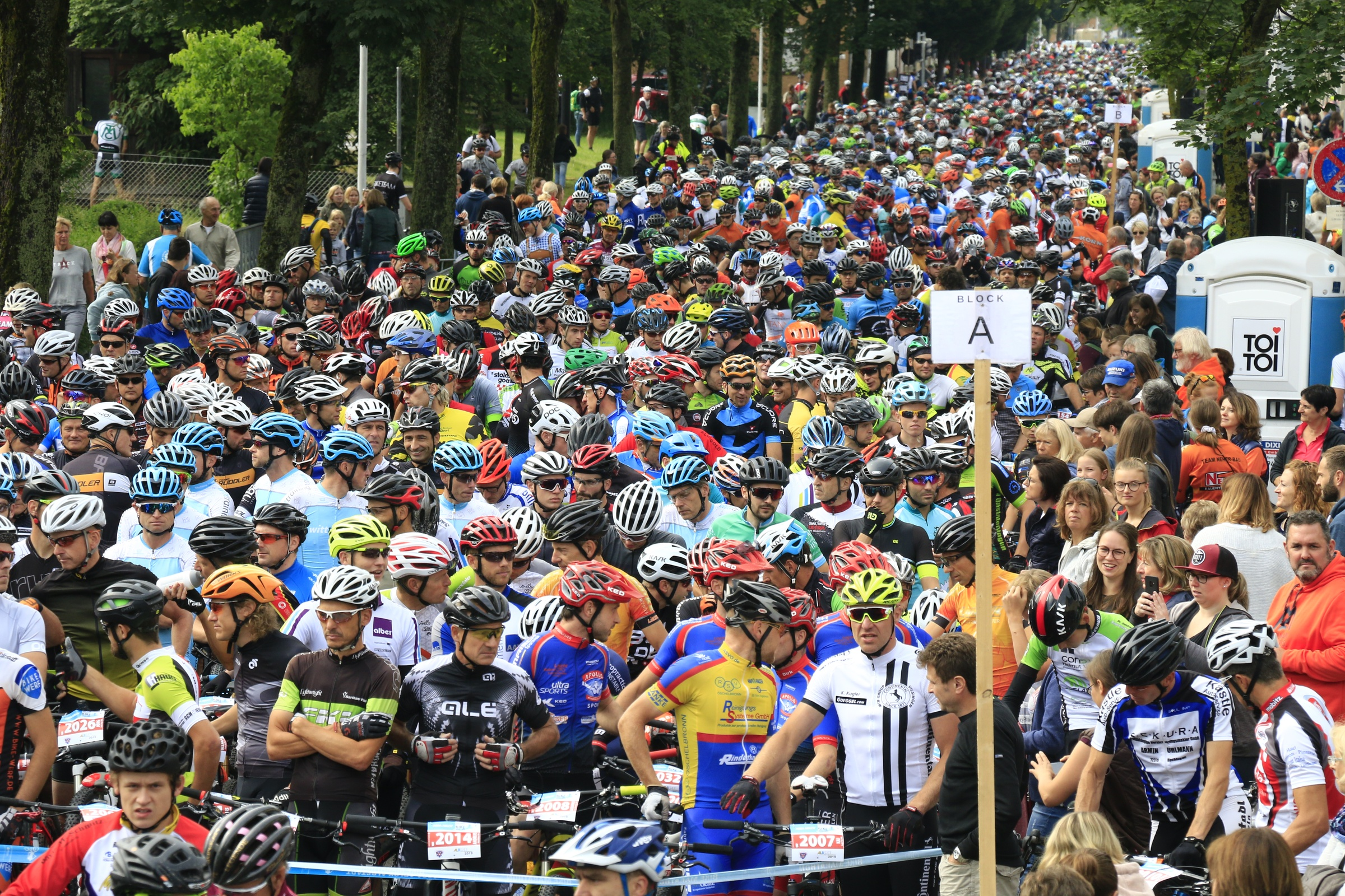 Start Albstadt Bike-Marathon 2019, Germany